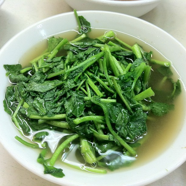 Watercress soup to atone for our "sins" #dinner